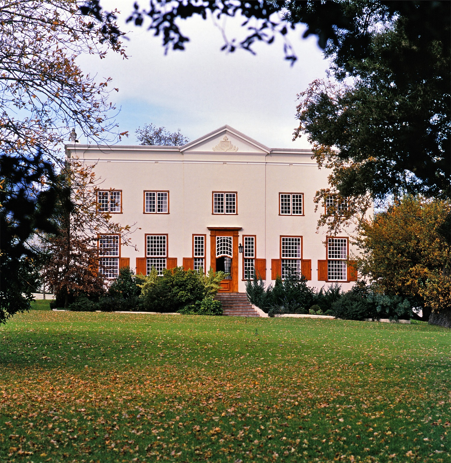 This media shows a South African Protected Site with SAHRA file reference 0000000000.